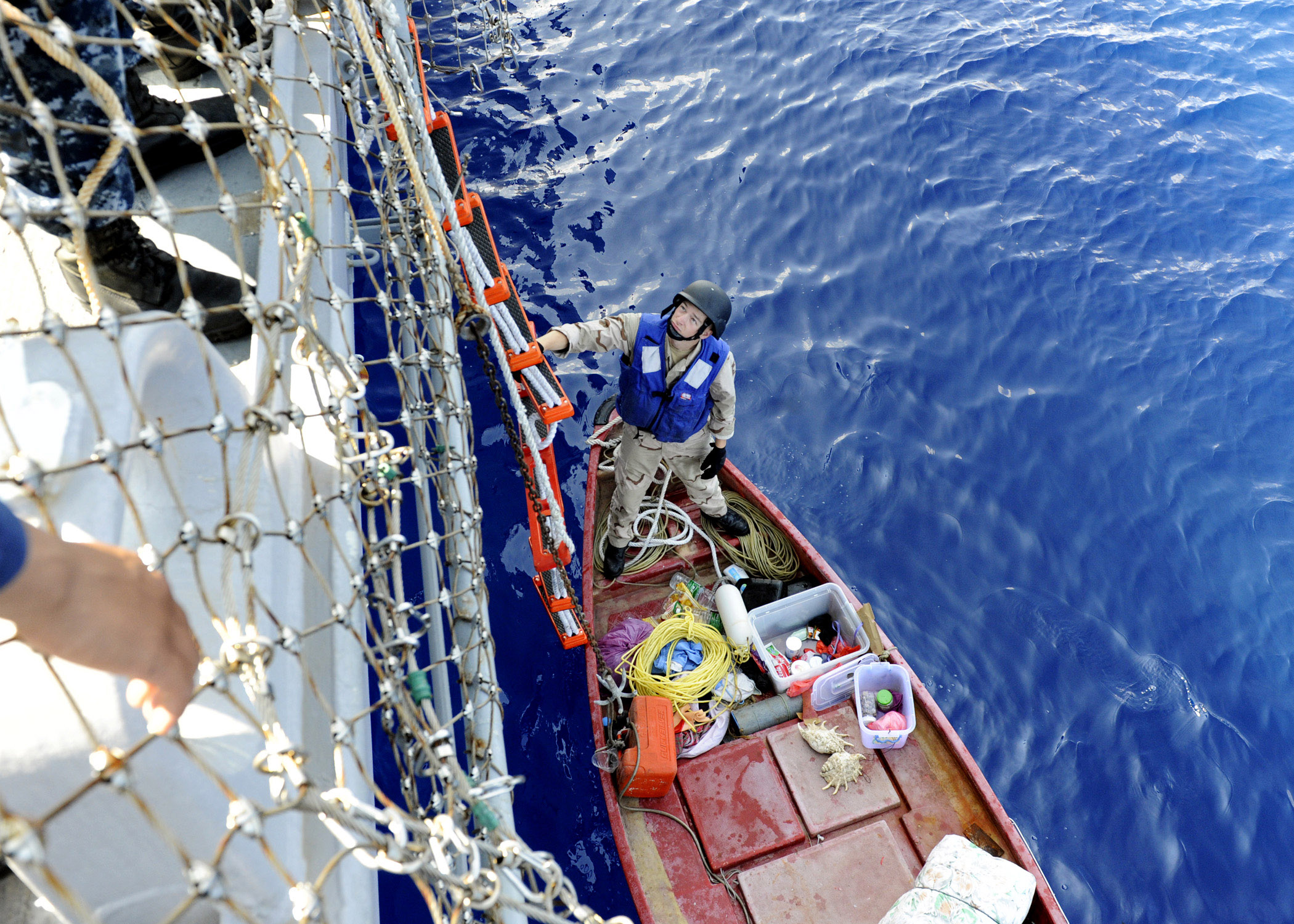 SOUTH CHINA SEA (Sep. 13, 2011) - Fire Controlman 3rd Class Matthew Burger, a visit, board, search, and seizure (VBSS) first climber aboard the Arleigh Burke-class guided-missile destroyer USS Dewey (DDG 105), prepares to ascend up a rope ladder from a small boat in the water on the starboard side of the flight deck during a VBSS operation. Dewey employs VBSS teams for maritime boarding actions and tactics, designed to combat illegal narcotics, arms trafficking and piracy. (U.S. Navy photo by Mass Communication Specialist 3rd Class Joshua Keim)